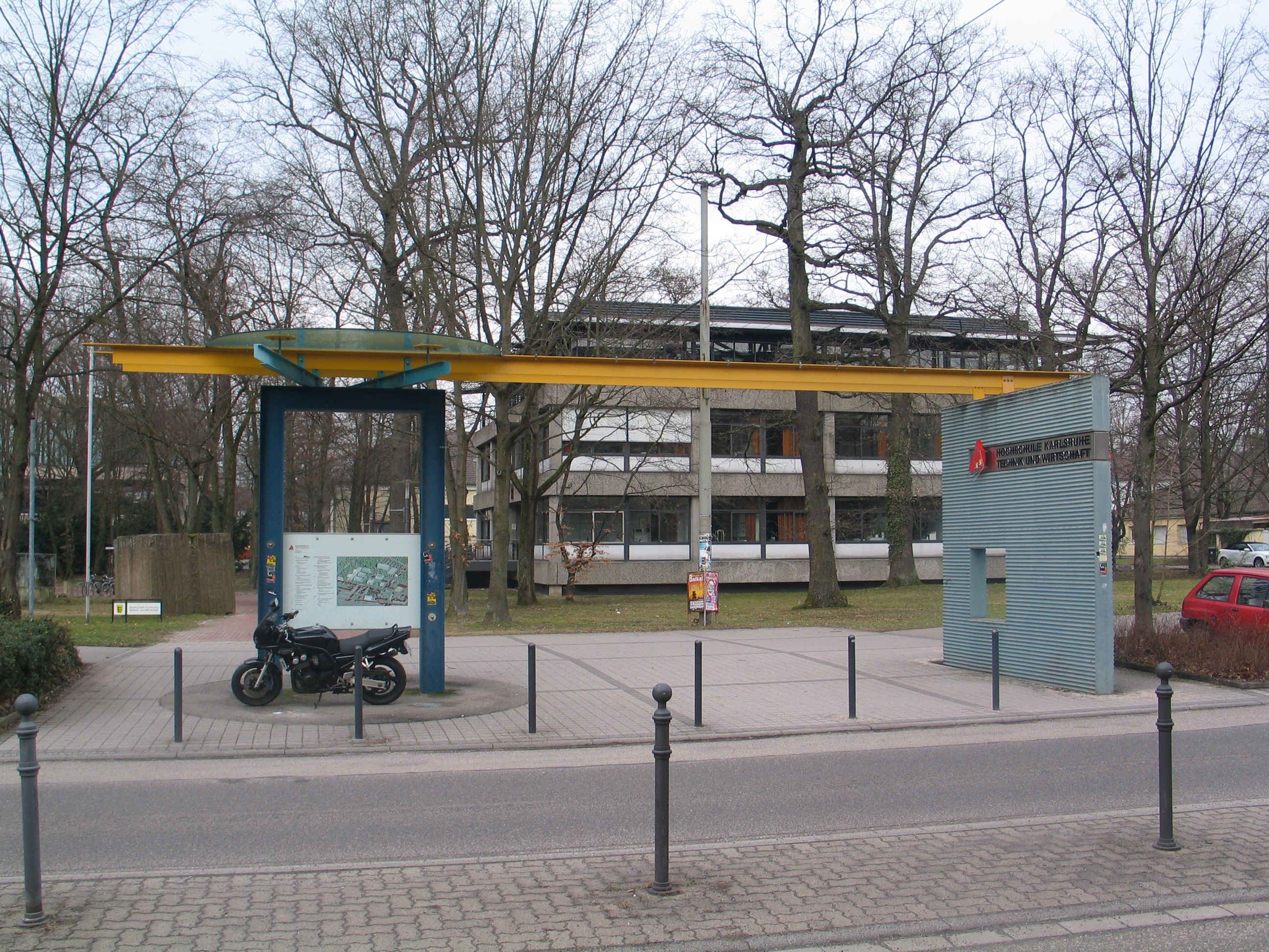 Main entry of the Karlsruhe University of Applied Sciences